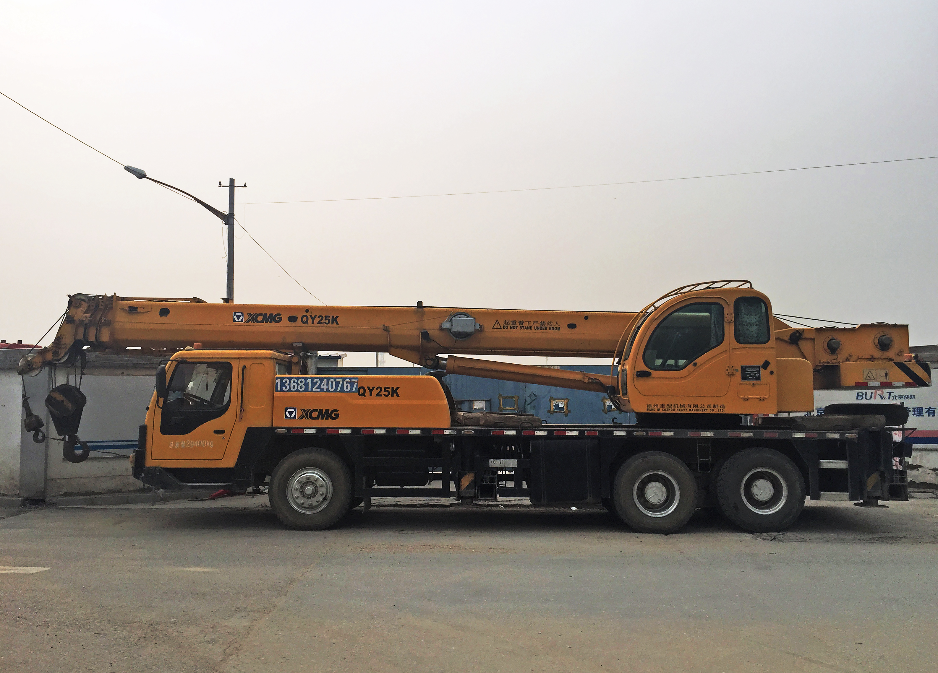 Taken outside Tundian Station. This one is a "25K" as well?